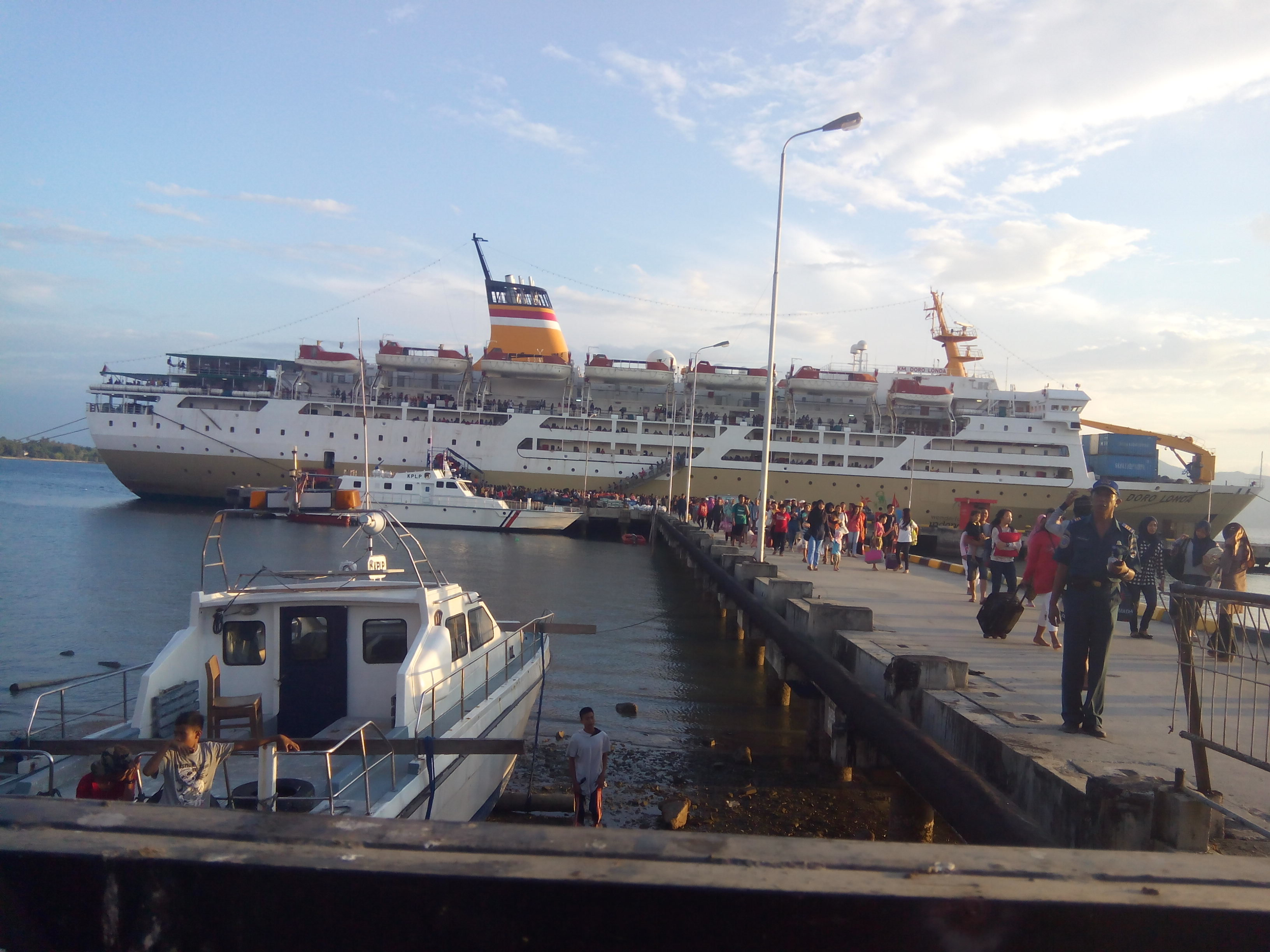 KM Dorolonda visiting port of Pantoloan, Central Celebes, Indonesia